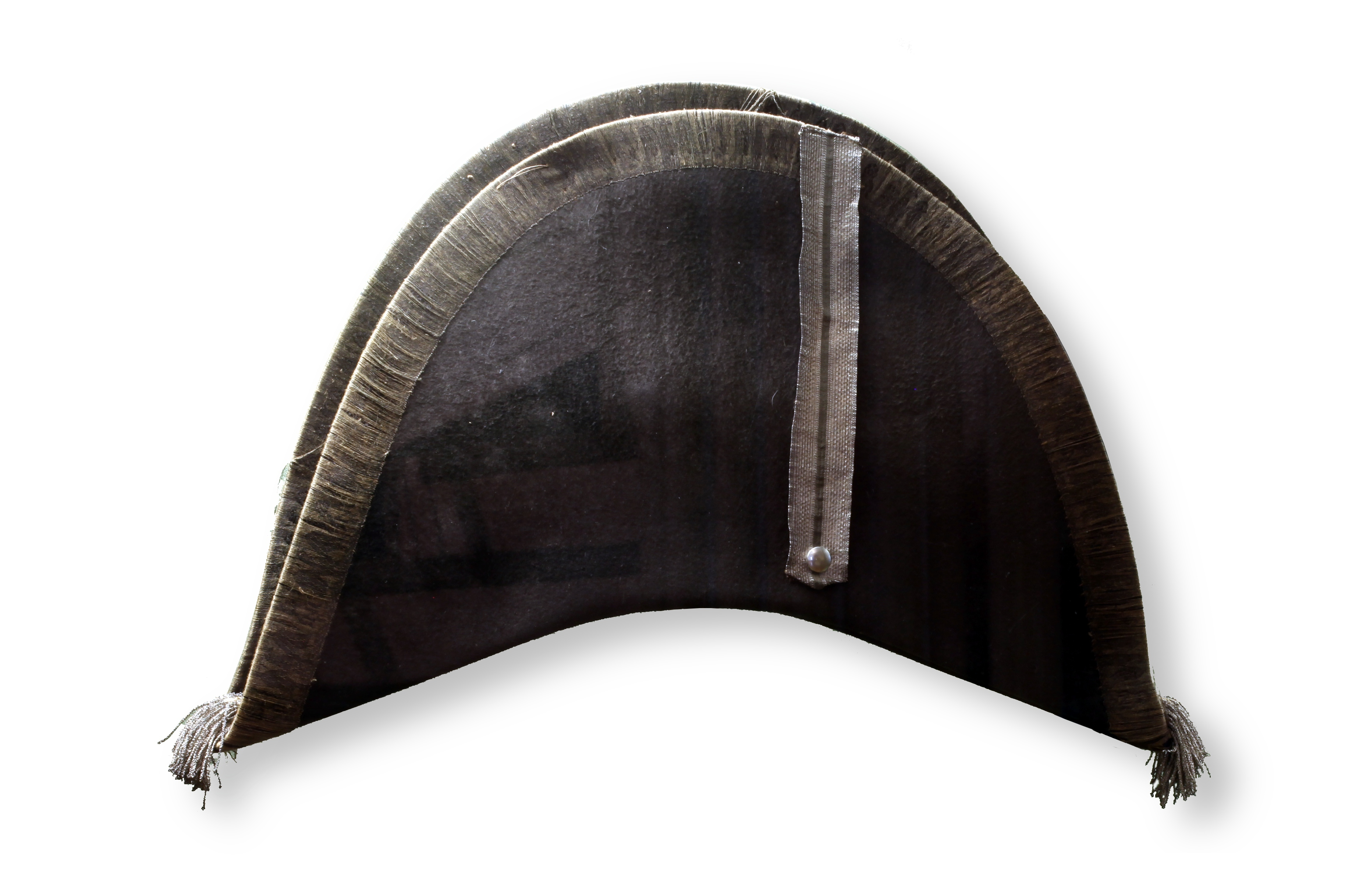 French engineering officer bicorne. On display at Morges military museum.